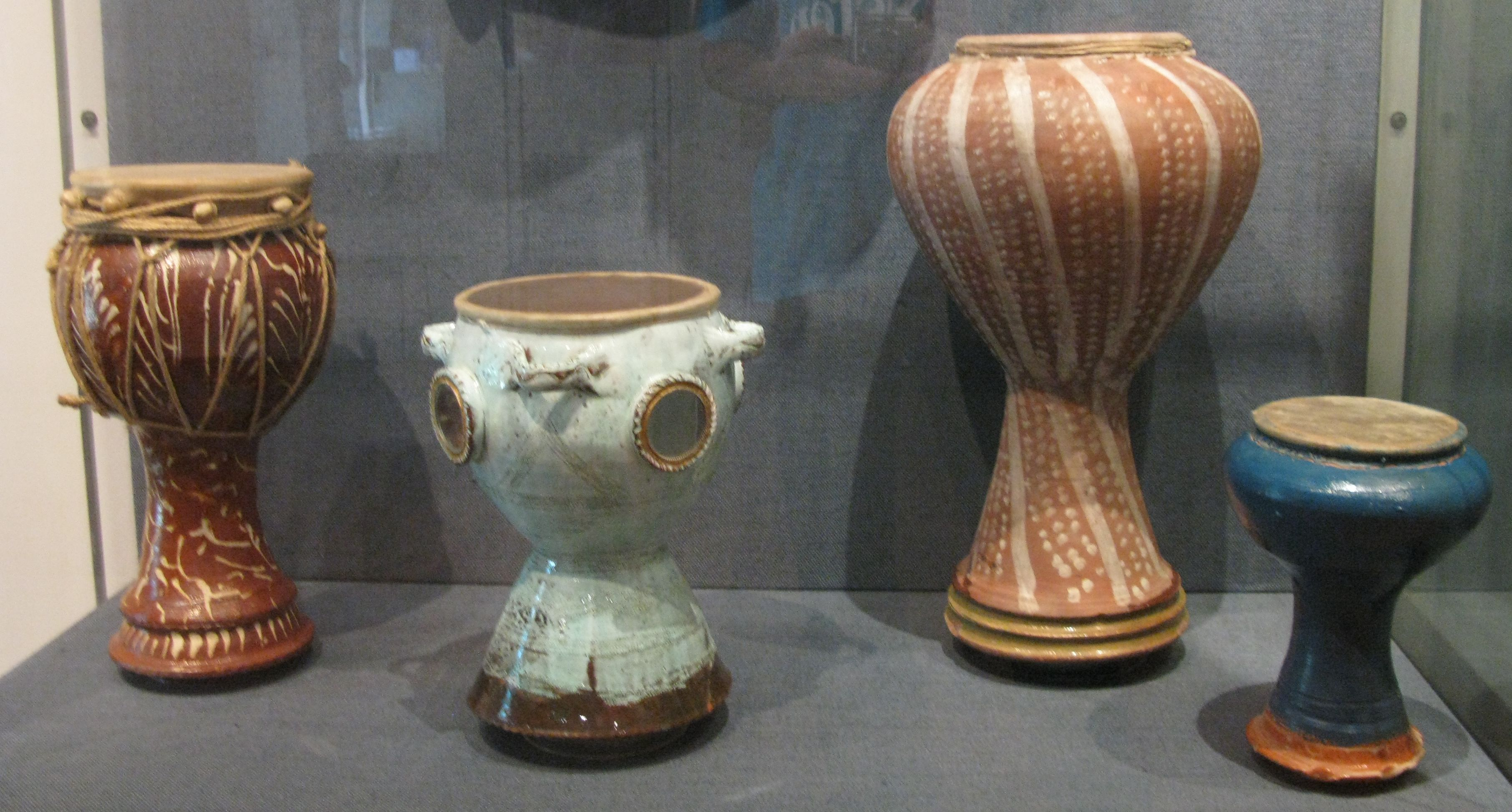 TOYMBELEKI (Pottery drum) Museum of Popular Instruments, Research Centre for Ethnomusicology. In Plaka, Athens, Greece. Official website. 2. Macedonia. 3-4. Lesbos, E. Aeegan. 5. Cyclades.